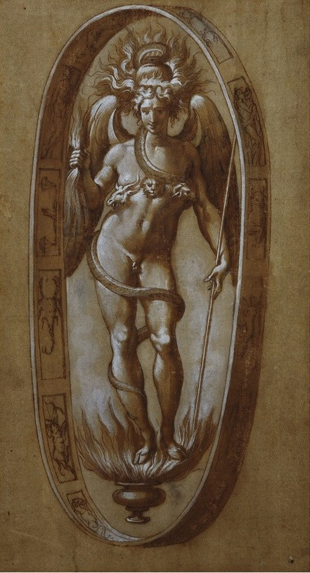 Phanes.